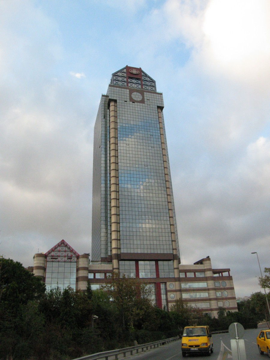 Ritz Carlton Hotel in Şişli district of Istanbul, Turkey.